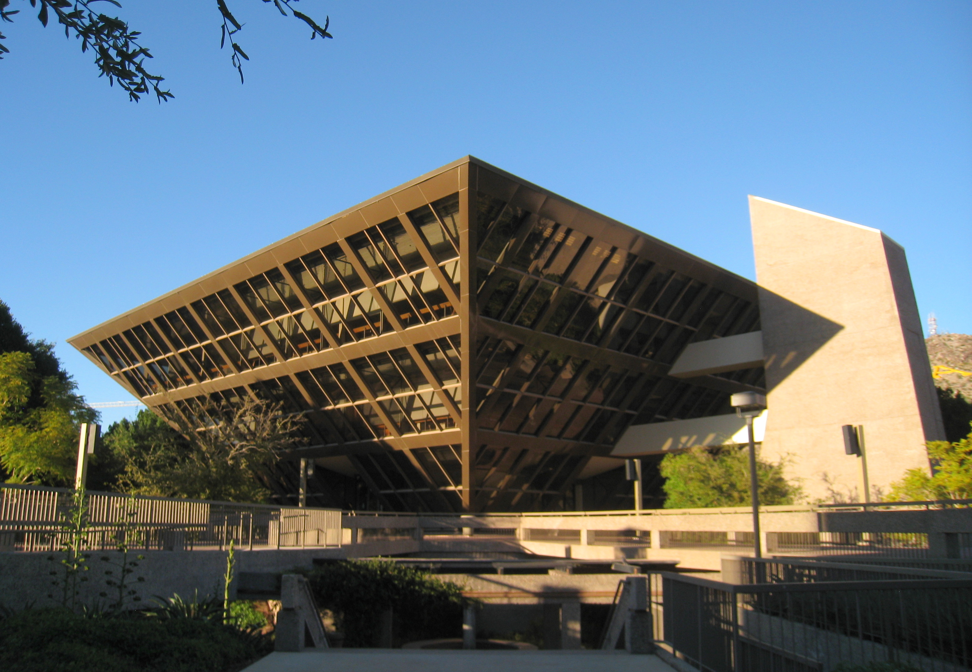 Tempe City Hall — 31 E. 5th Street, Tempe, Maricopa County, Arizona. The Modernist style inverted pyramid was completed in 1971. Architects: Michael and Kemper Goodwin.